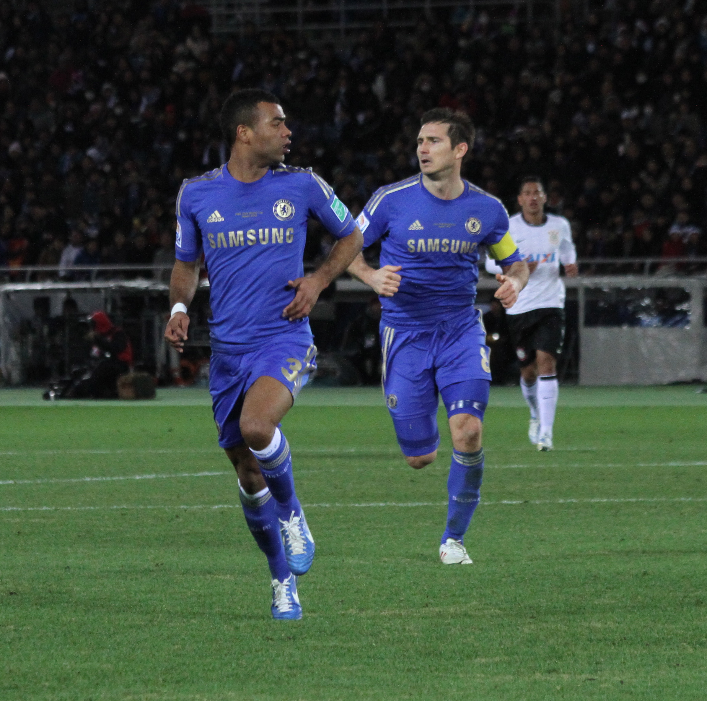 Ashley Cole and Frank Lampard - 2012 FIFA Club World Cup